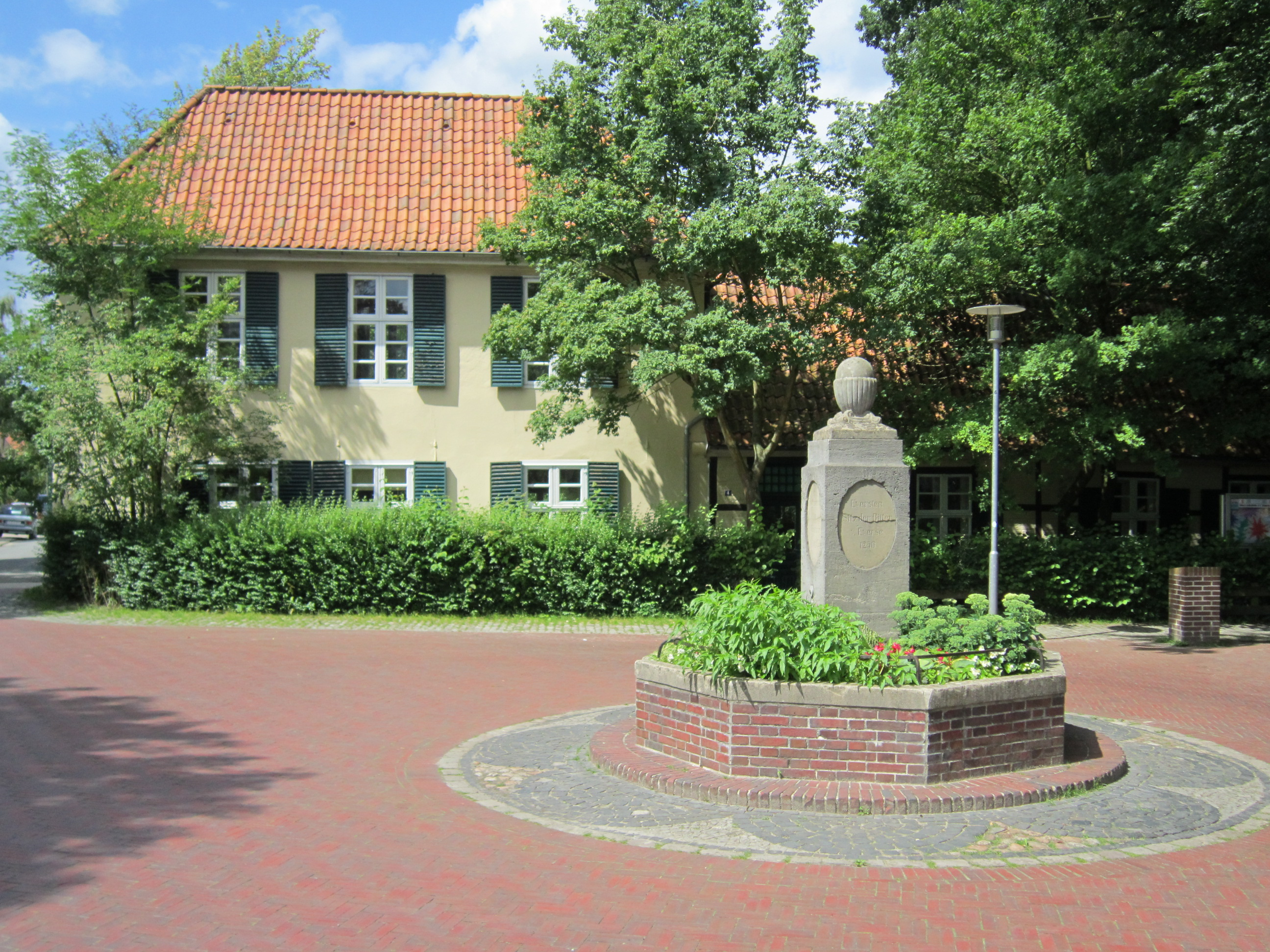 Village centre of Oldenburg-Eversten